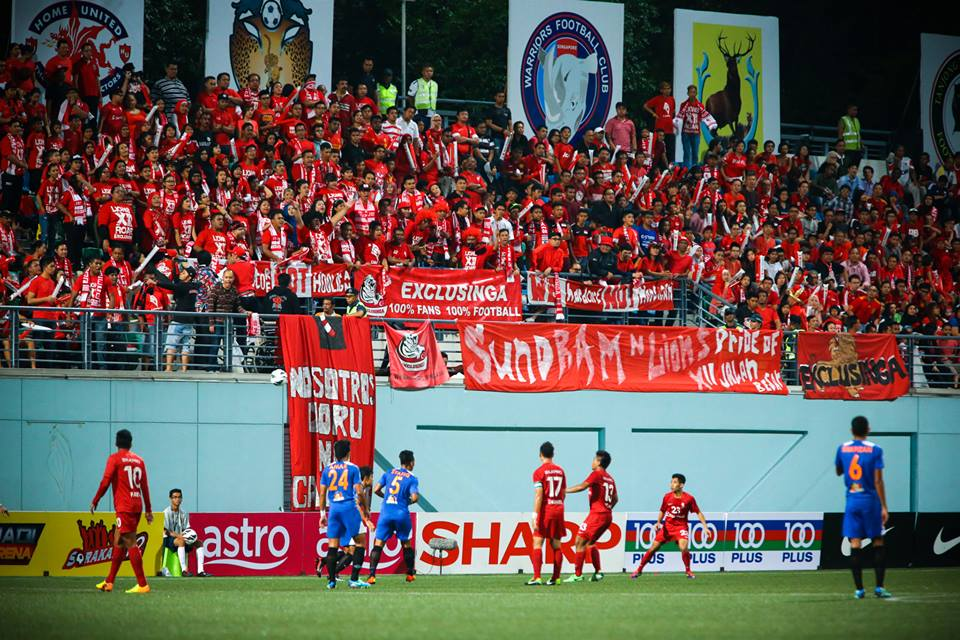 LionsXII supporters watching their team play a home game against PKNS FC.